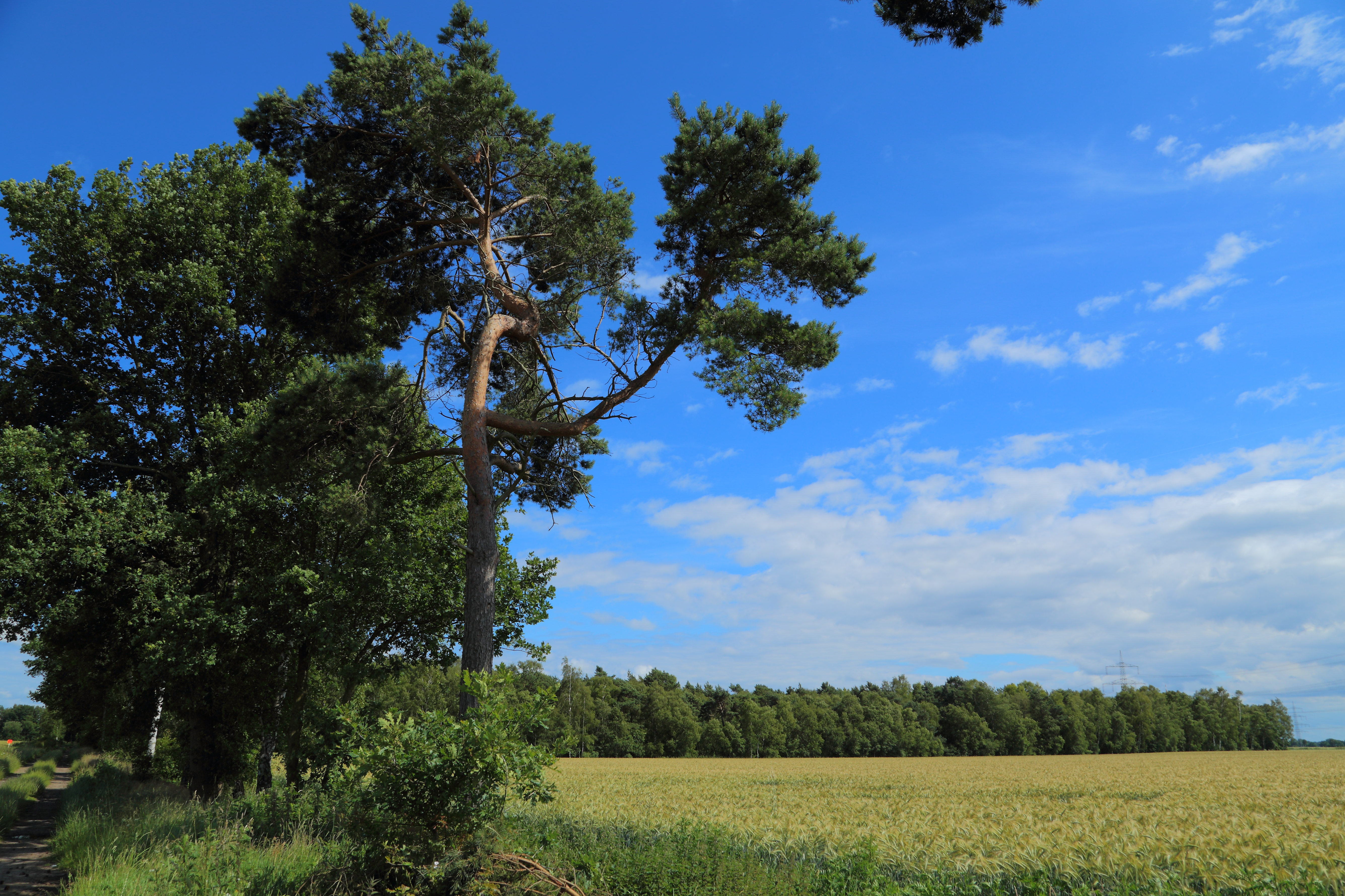 The nature reserve (Naturschutzgebiet) „Im Teichbruch“ in Bramsche, Landkreis Osnabrück, Lower Saxony, Germany. Here the western edge, seen from a farm track.